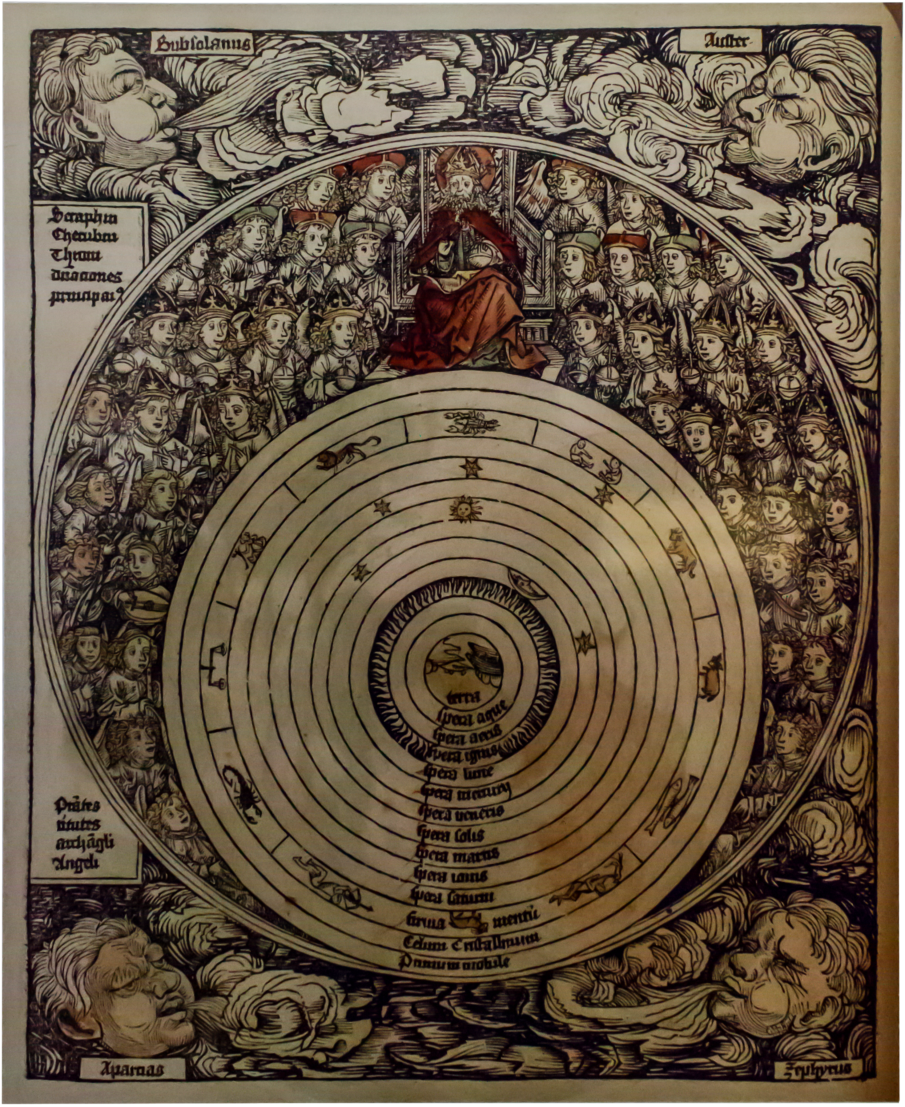 Geocentric universe and the hierarchies of cherubims and seraphims, etc., leading to God. From Hartmann Schedel, Liber chronicarum mundi, (Nuremberg Chronicle) Nuremberg, 1493. Woodcut.